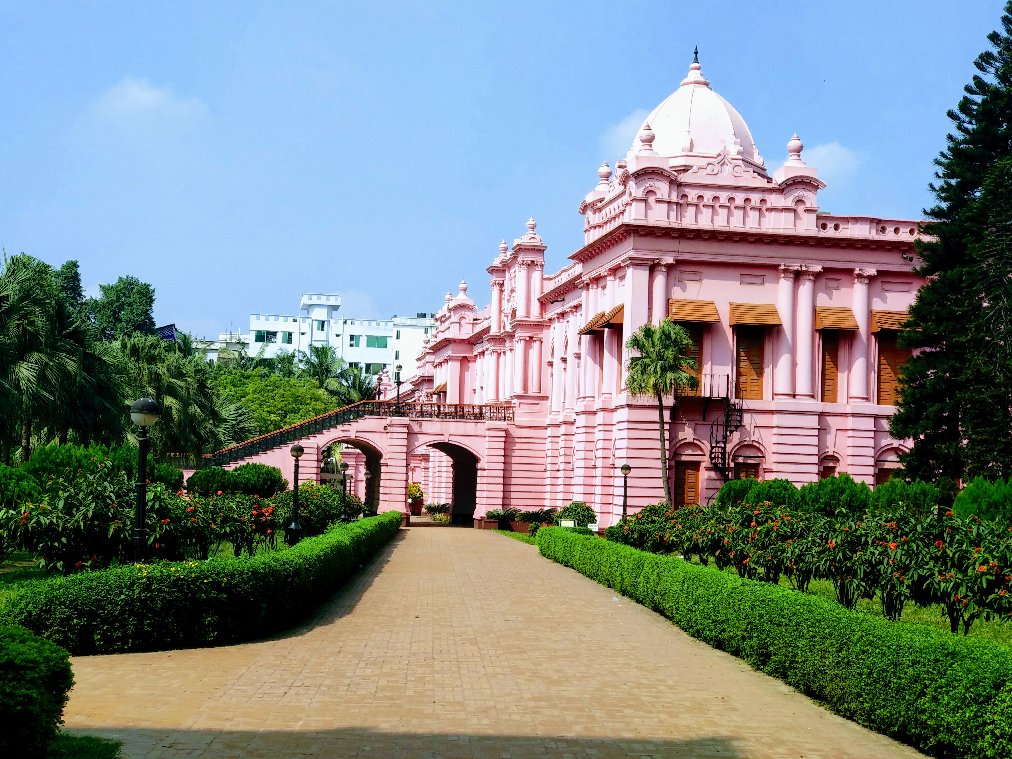 This picture contains side view of Ahsan Manzil.